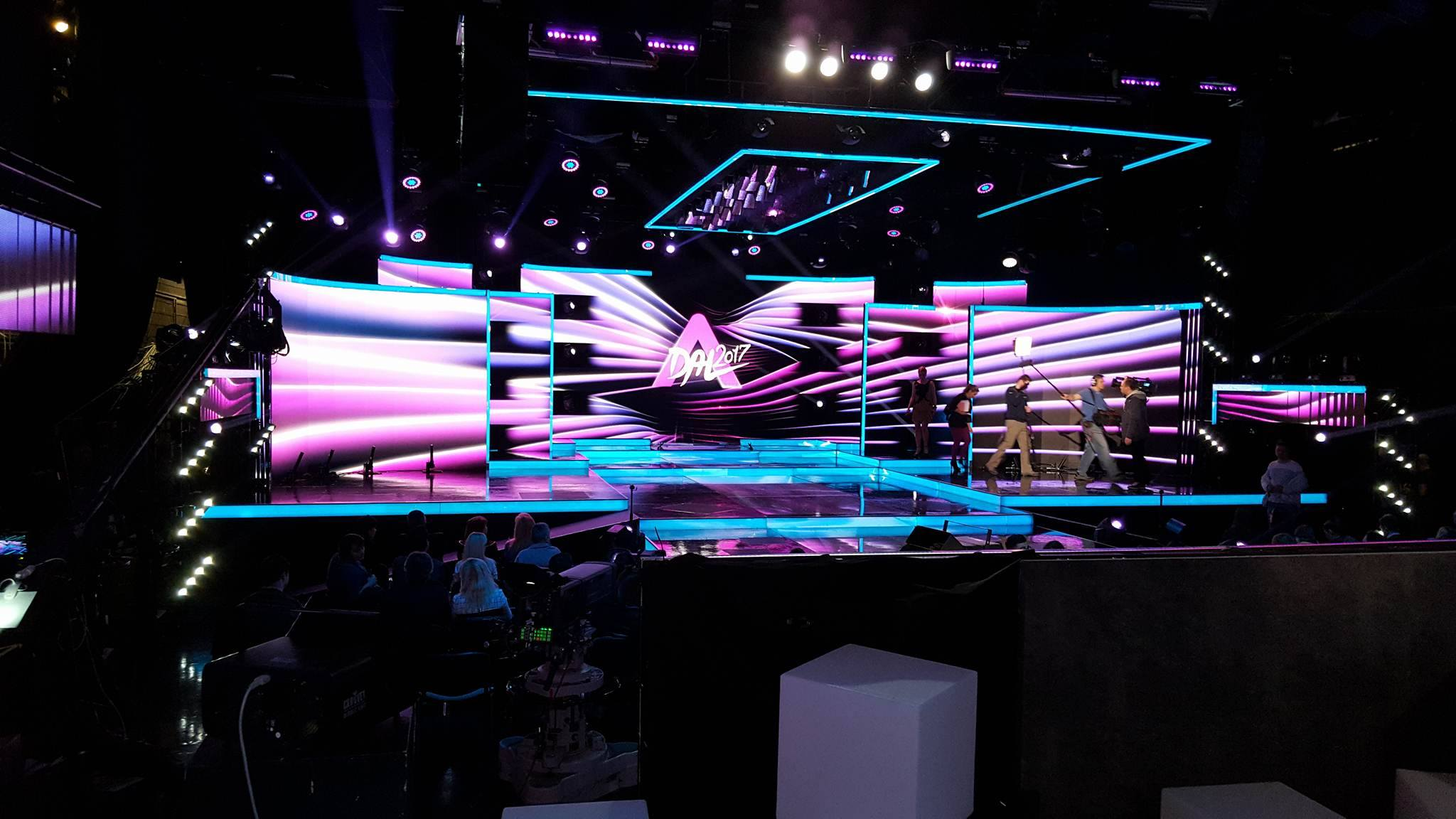 A Dal 2017 studio at MTVA headquarters in Budapest, District III